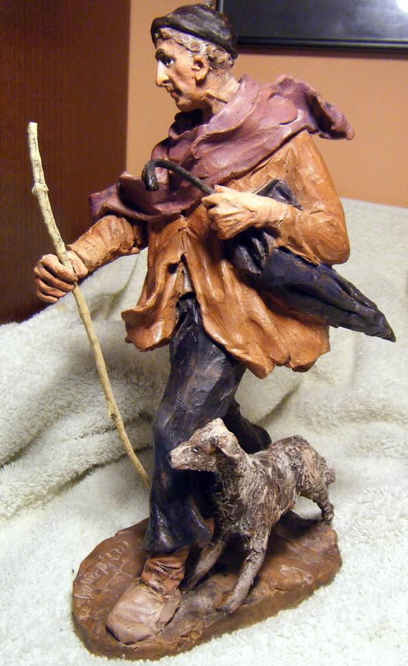 Work in terracotta from Josep Traité, Catalunya